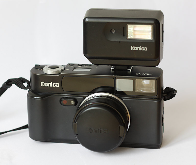 Konica Hexar with flash and lens cap.